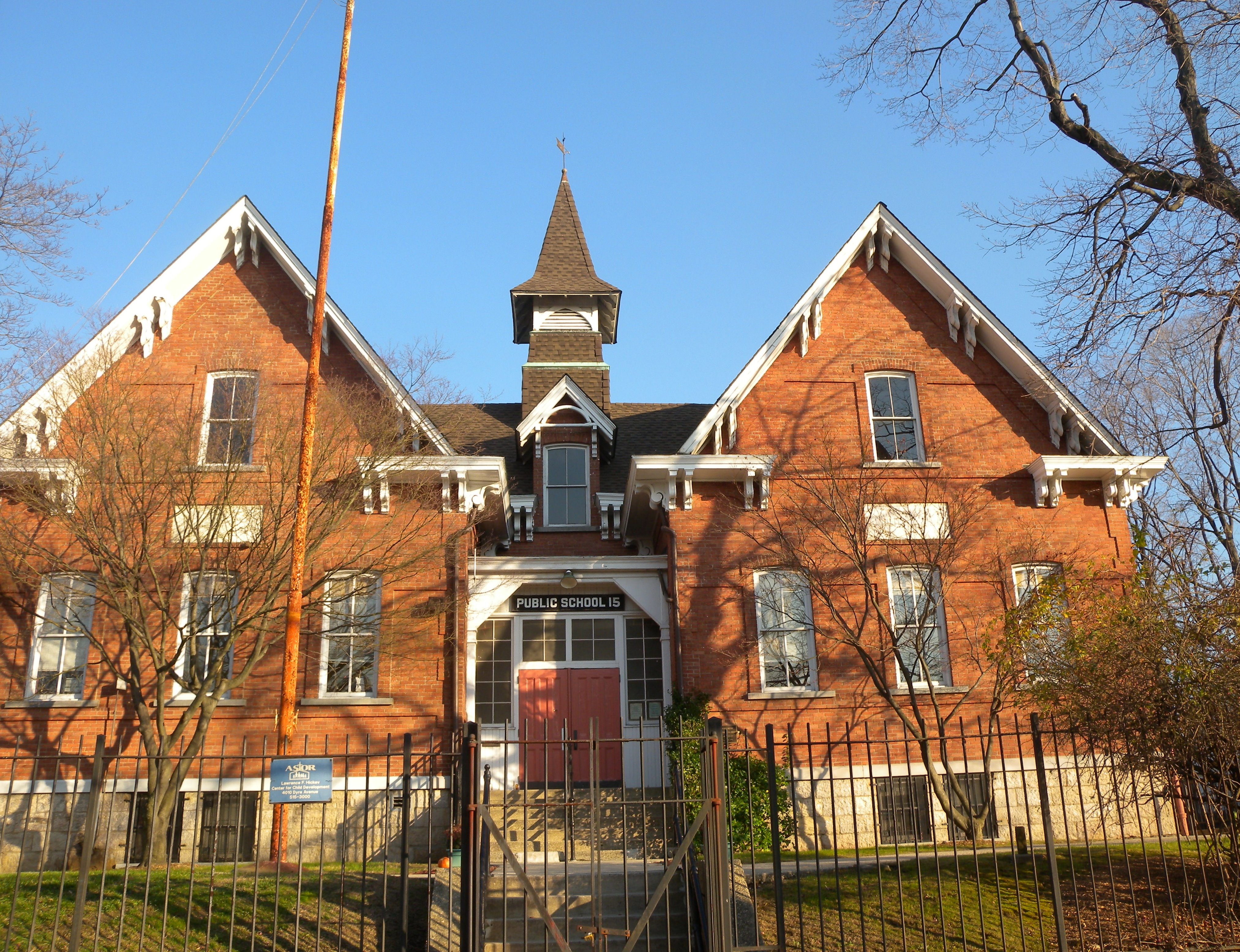 Looking east across Dyre Avenue, north of Dark Street, at PS 15 on a sunny afternoon. Easchester ZIP Code 10466.